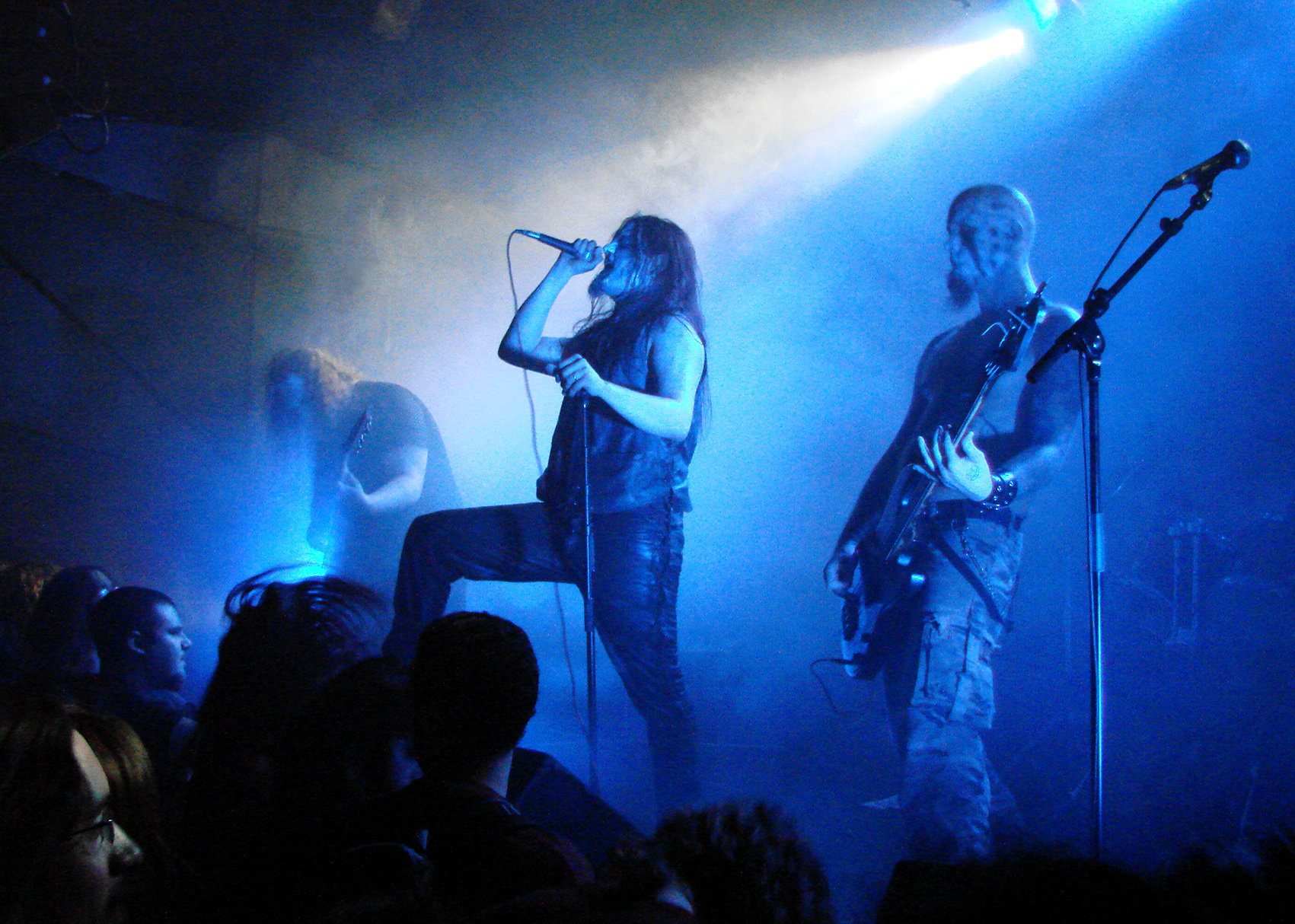 Horna, a Finnish Black Metal band, during a concert in Paris.